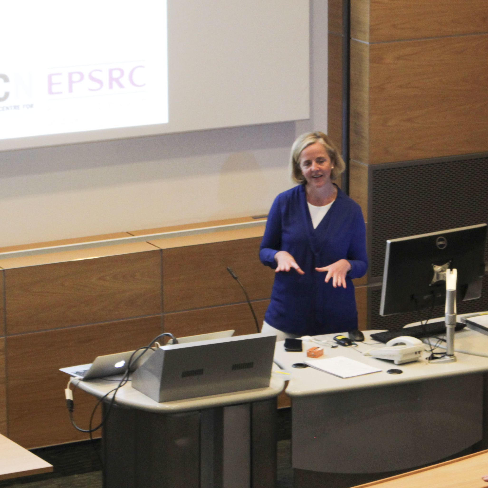 LCN 10th Anniversary - Prof Rachel McKendry Director of i-Sense Interdisciplnary Research Collaboration, Department of Medicine and LCN, UCL